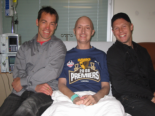 Alastair Clarkson (left) and Hawks' Captain Sam Mitchell (right) visiting Leukaemia sufferer Graham Barnell (1965 - 2009) at the Seattle Cancer Care Alliance in Oct 2008. Taken by Samantha MacRae